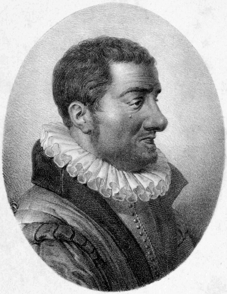 Crop of a portrait of Jean Passerat (1534–1602), French political satirist and poet.